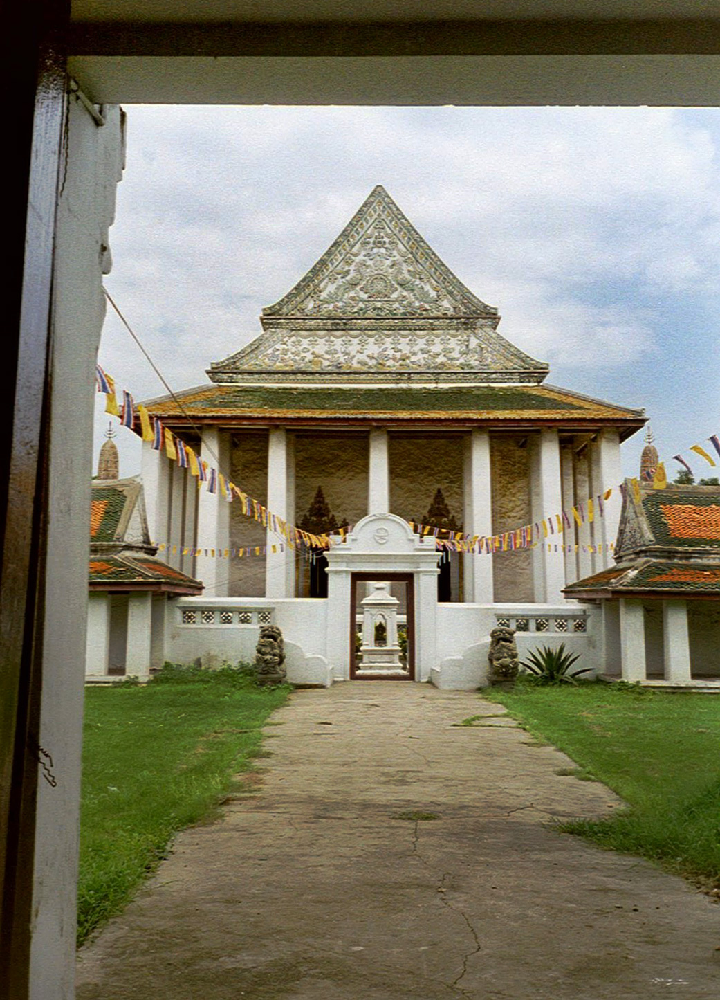 Entrance to Wat Thepthidaram, Bangkok, Thailand.